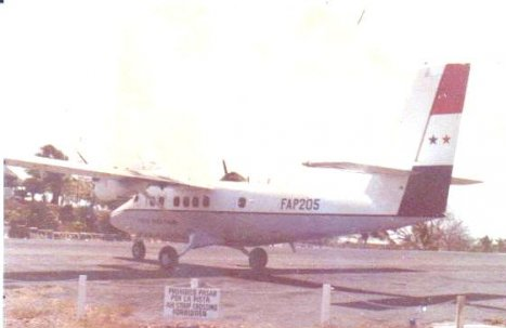 FAP-205, the plane involved in the crash (Panamanian Air Force FAP-205 crash)